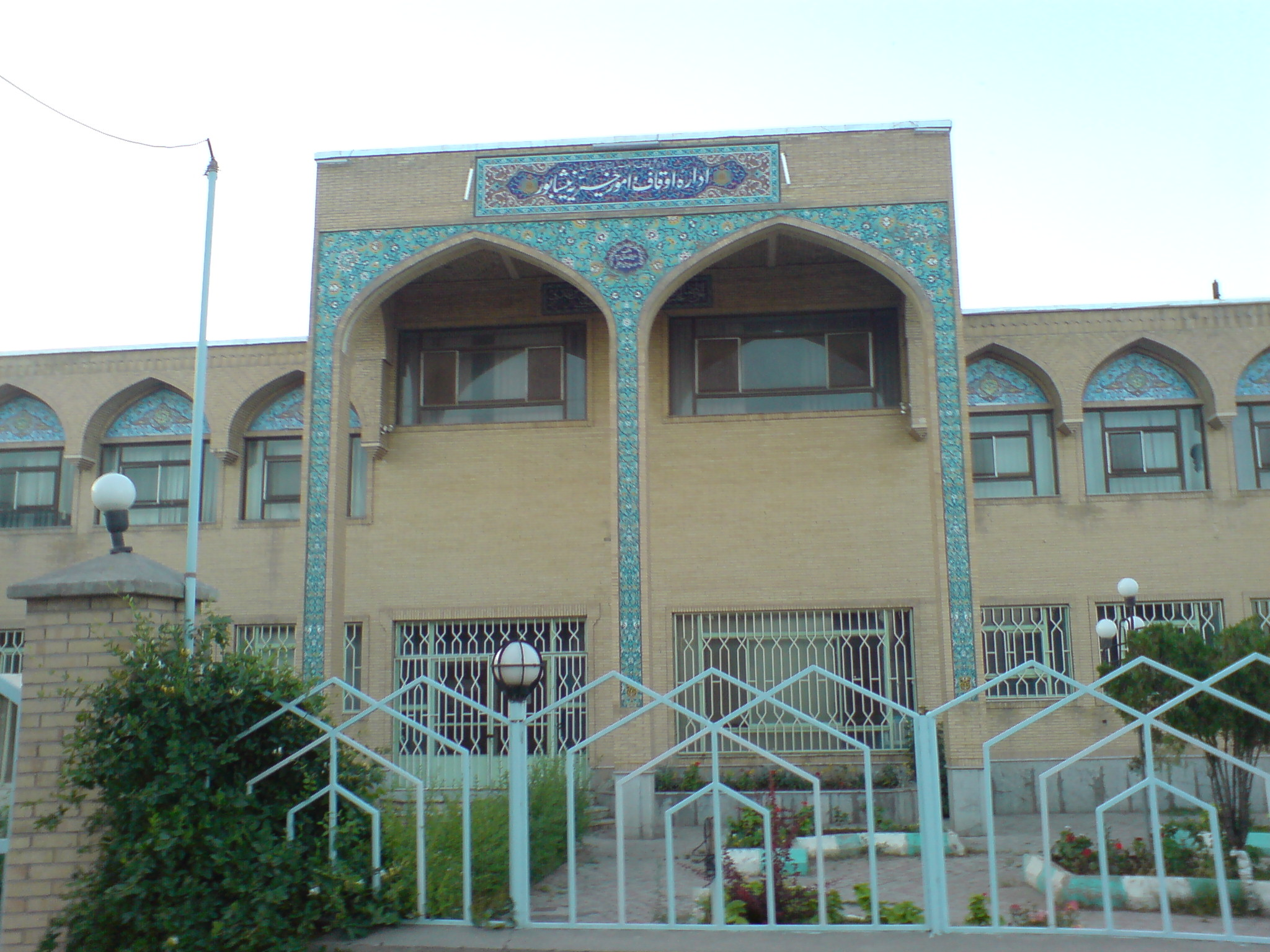 Owghaf_&_and_Charity_affairs_office-nishapur